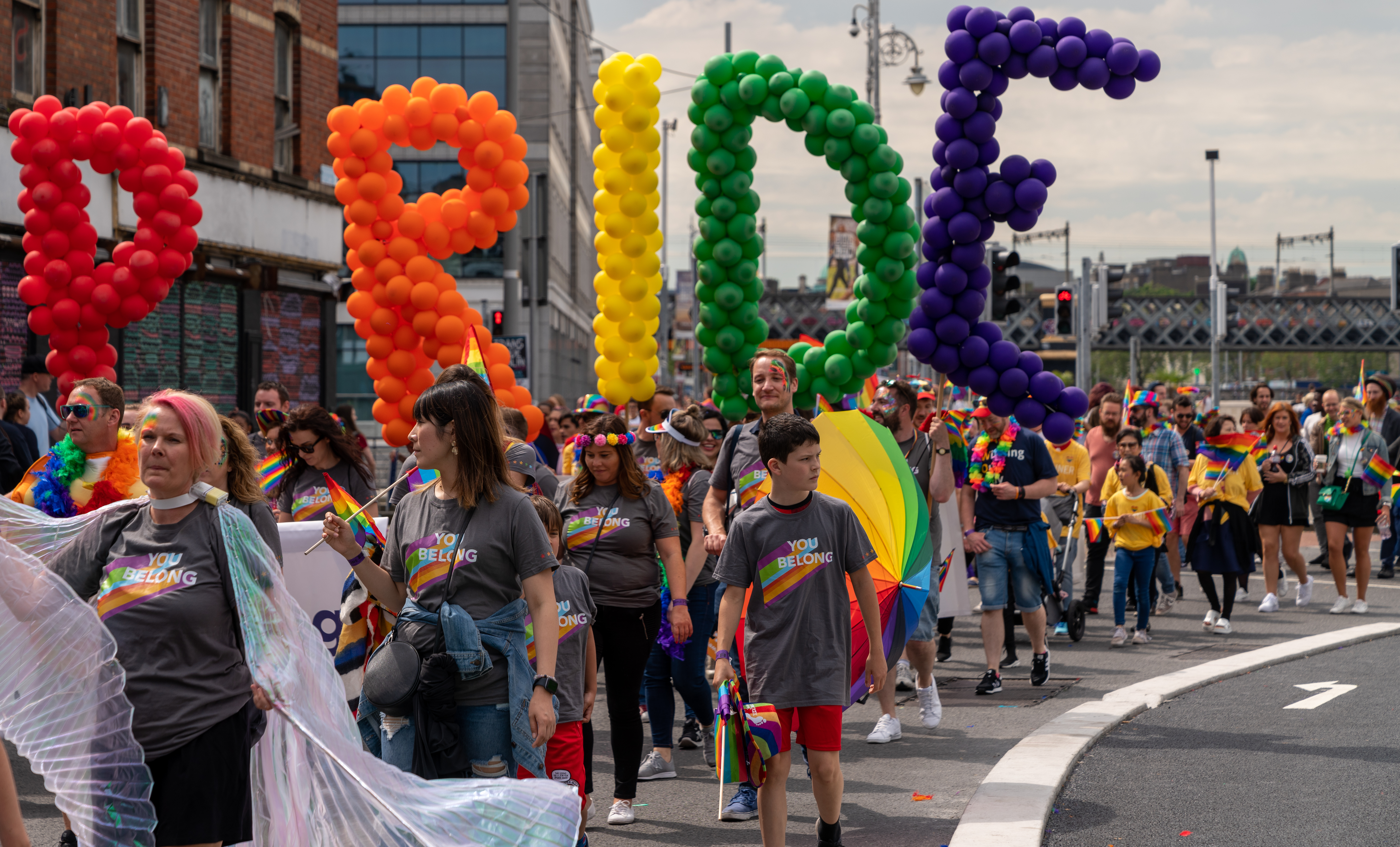 The parade took more than two hours to pass any give point on the route possibly making it bigger than the St. Patrick's Day parade. Right from the beginning I have photographed this annual event and I have always photographed in the backstage area before the parade actually set out. However, this year I could not gain access without media accreditation which caught me be surprise so I decided to go for lunch and then get the train to Greystones but on my way to the station I found a good location from which to photograph the parade so I took the opportunity. If you are not interest, I apologise in advance for the number of photographs that I have upload but I usually get a lot of requests form individuals seeking photographs of themselves so I do my best to include as many people as possible. June 28th marks the 50th anniversary of an uprising that changed the landscape of LGBTQ+ rights forever. Over six nights in 1969, members of the lesbian, gay, bisexual and transgender community resisted police oppression at the Stonewall Inn in New York City, igniting the modern fight for LGBTQ+ rights across the world.